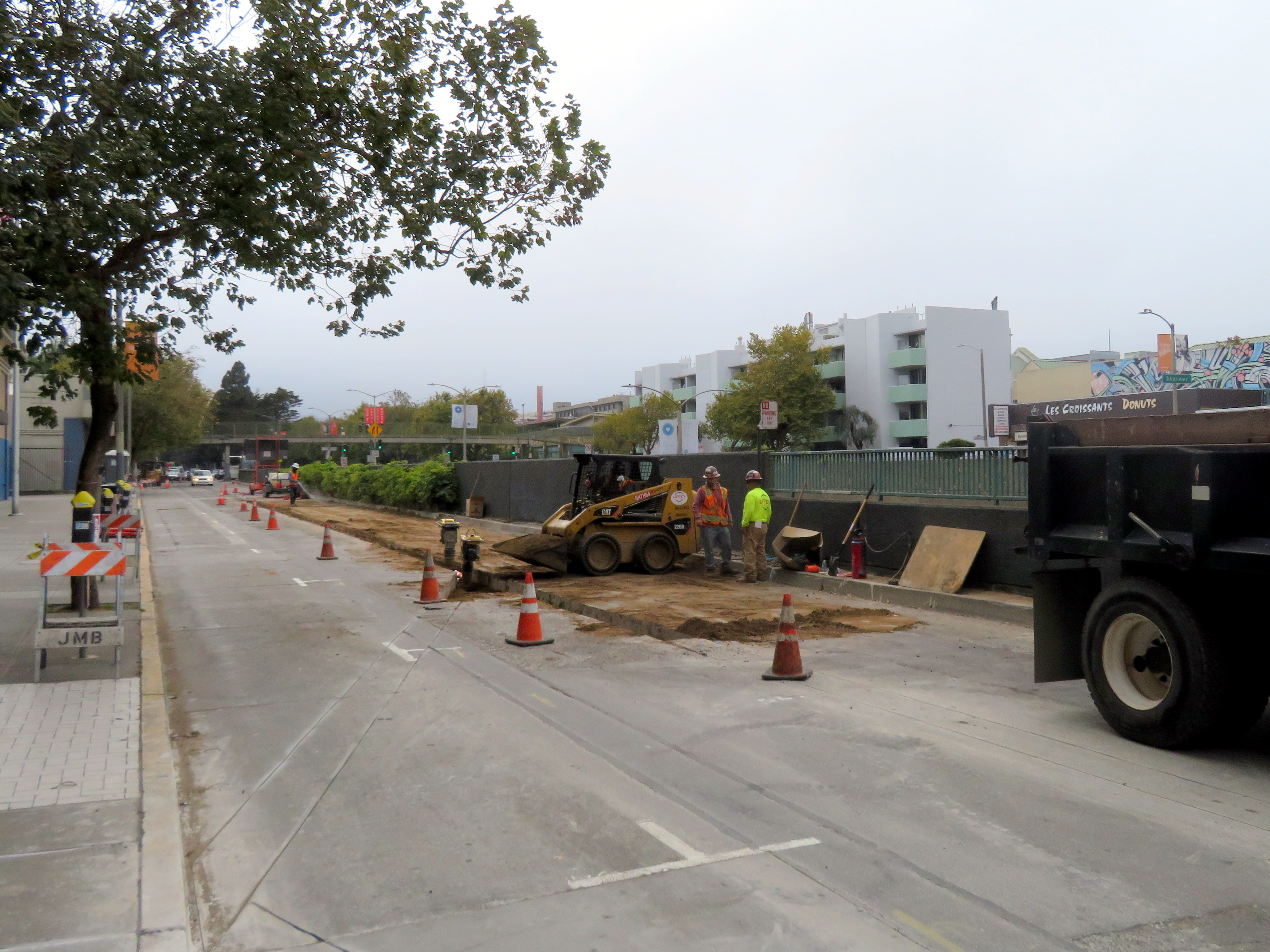 Sewer replacement work for the Geary Rapid project just west of Fillmore in September 2019